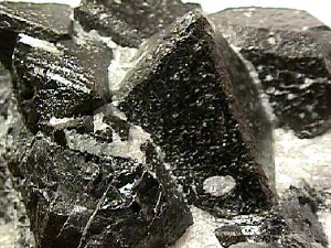 A magnetite specimen from the Kola Peninsular, Russia. Metallic black octahedral magnetite crystals, measuring up to 2.7 cm (1") across, in matrix.